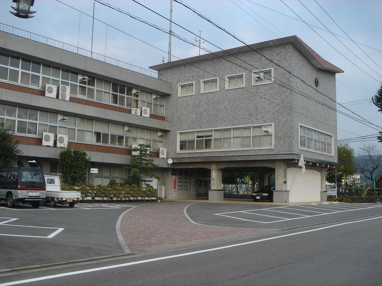 Yaotsu Town Office(八百津町役場),Yaotsu,Gifu,Japan(岐阜県八百津町)で撮影